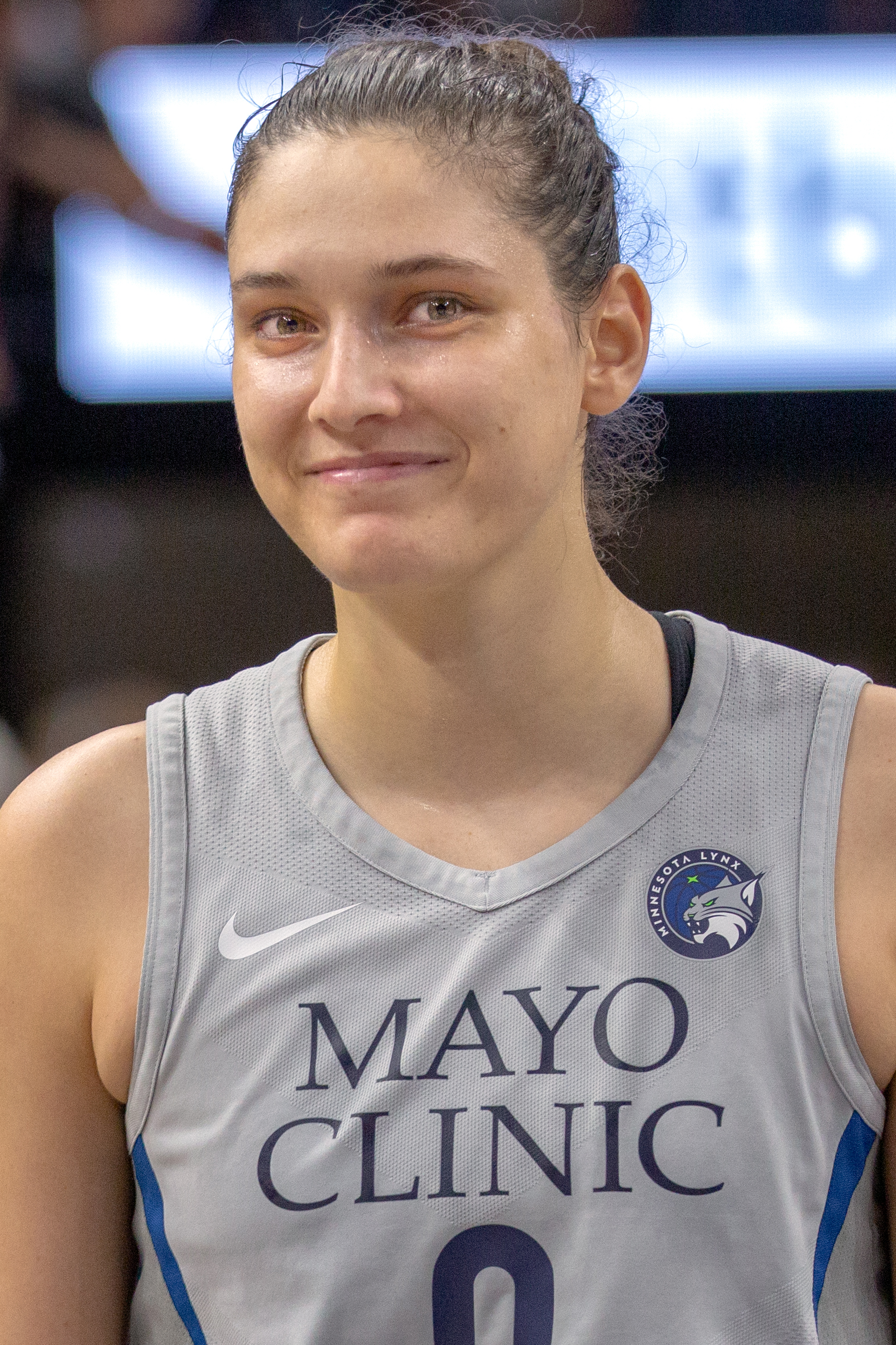 Cecilia Zandalasini speaking during a post-game in the Minnesota Lynx vs Atlanta Dream game in 2018